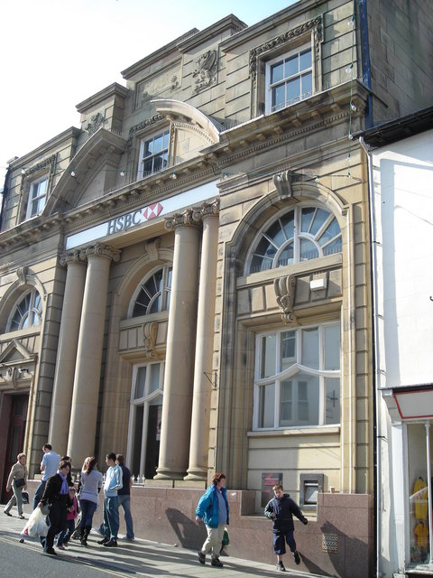 HSBC Bank HSBC bank in Aberystwyth.